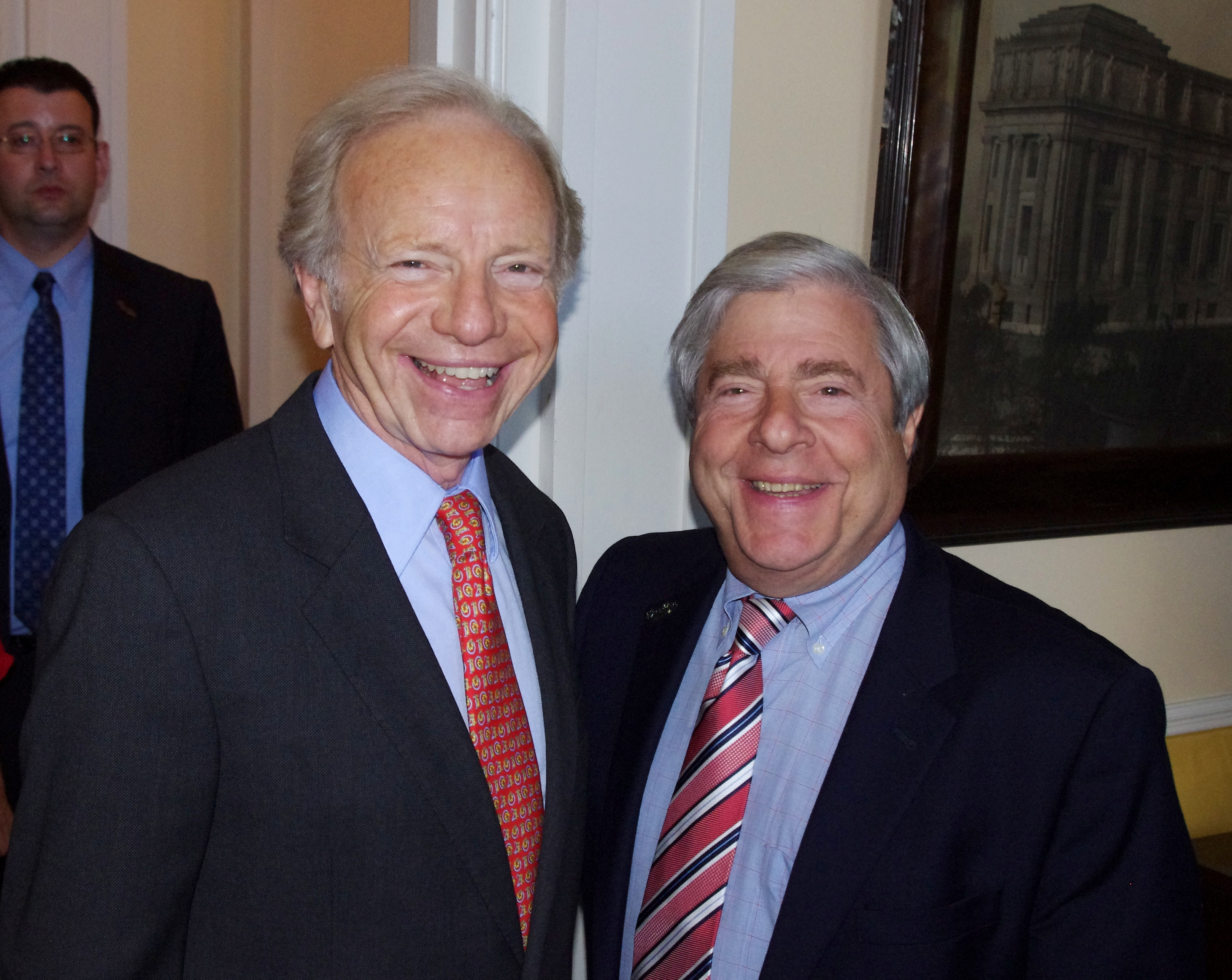 Senator Joseph Lieberman and Brooklyn Borough President Marty Markowitz at the 2011 Brooklyn Book Festival.